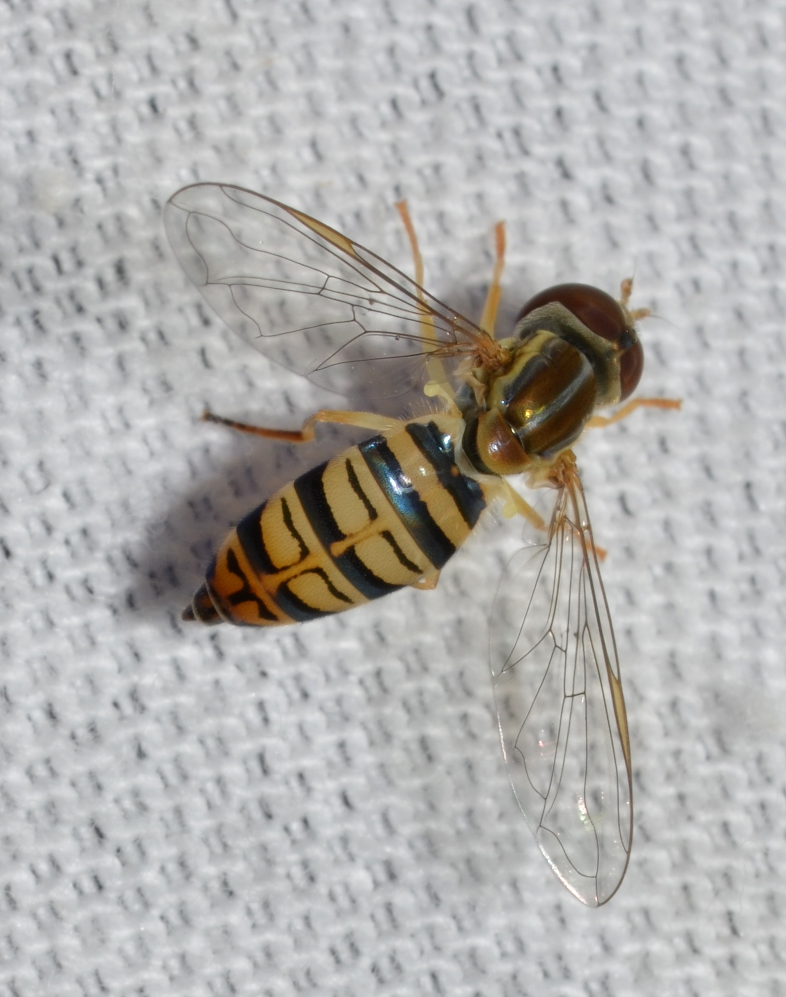 Mothing 8/1/14